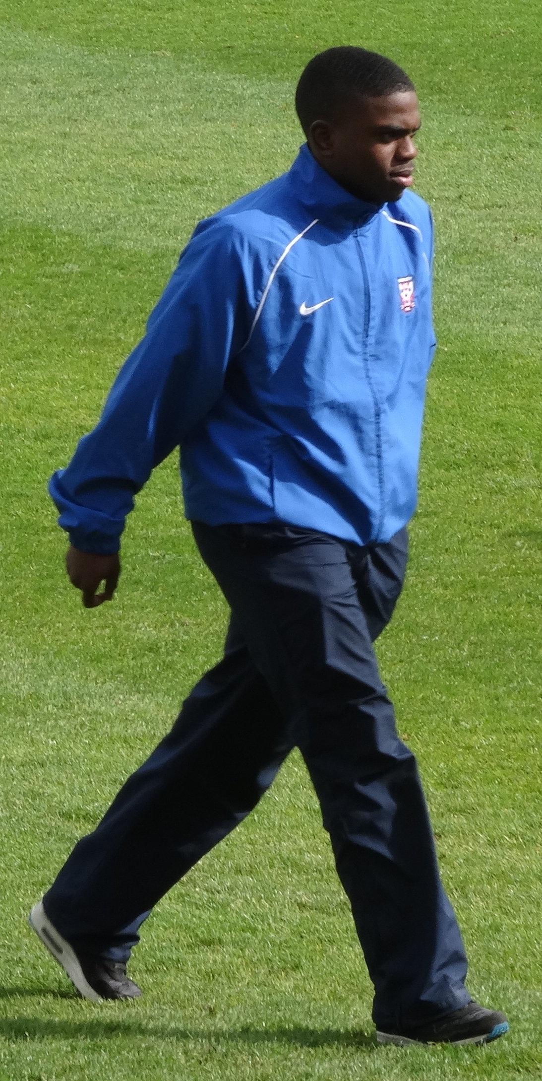 Shaq McDonald warming up for York City against Newport County at Bootham Crescent, York on 26 April 2014